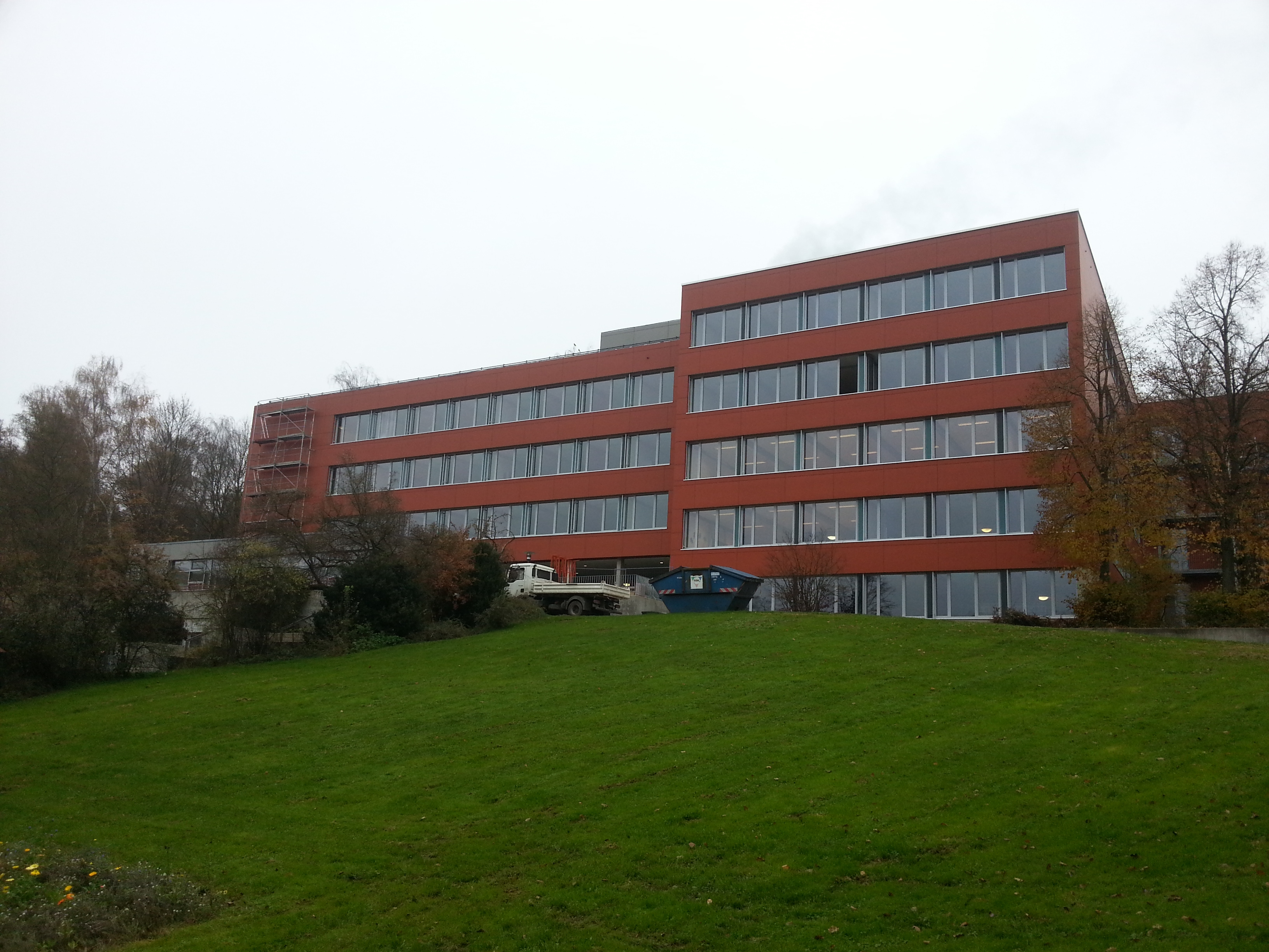 Scheffold high school after the renovation.